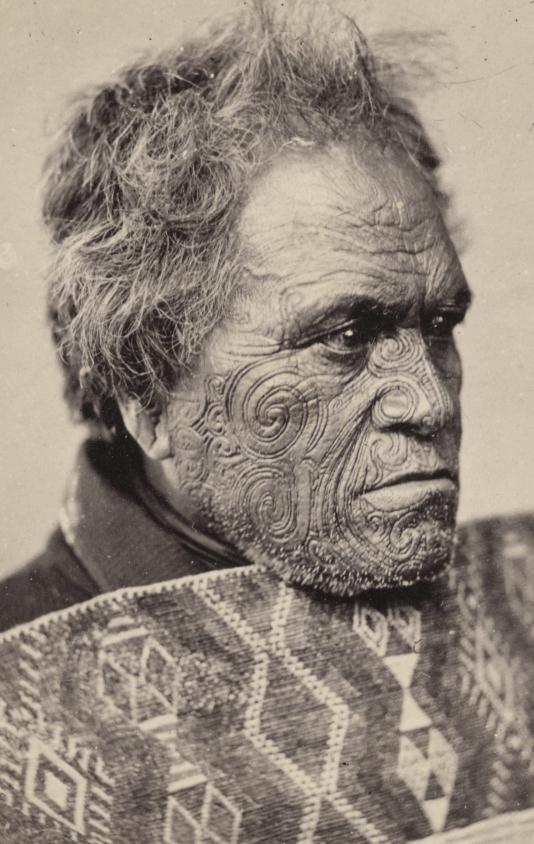 Chef Maori - Maori chief. Tomika Te Mutu, also known as Tomiti Te Mutu, a Ngāi Te Rangi chief from Tauranga. See also Image:Chef Maori Tomiti-te-mutu 1998-3162-173.jpg